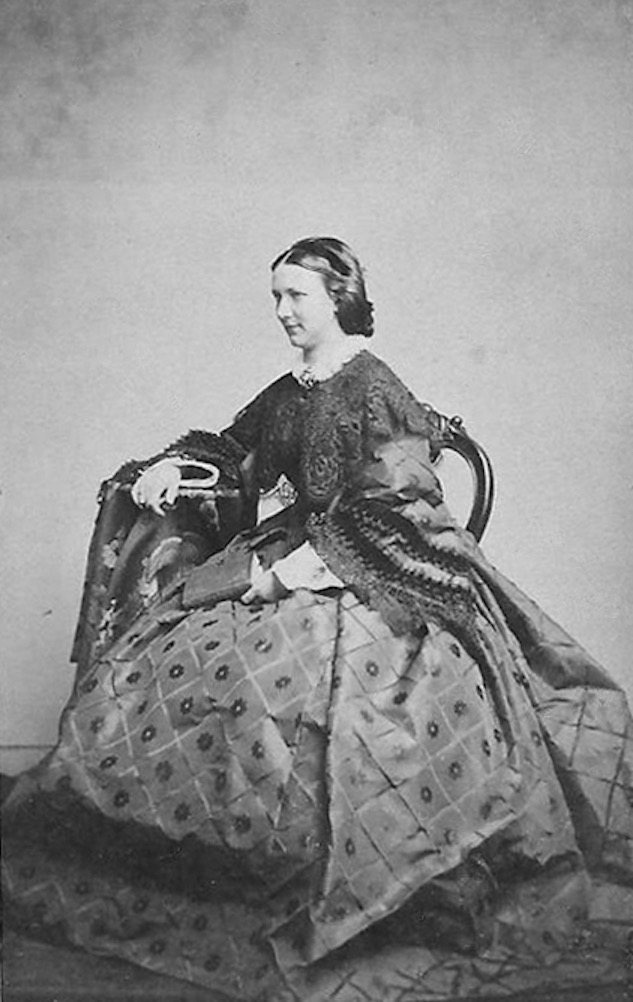 Queen Carola of Saxony